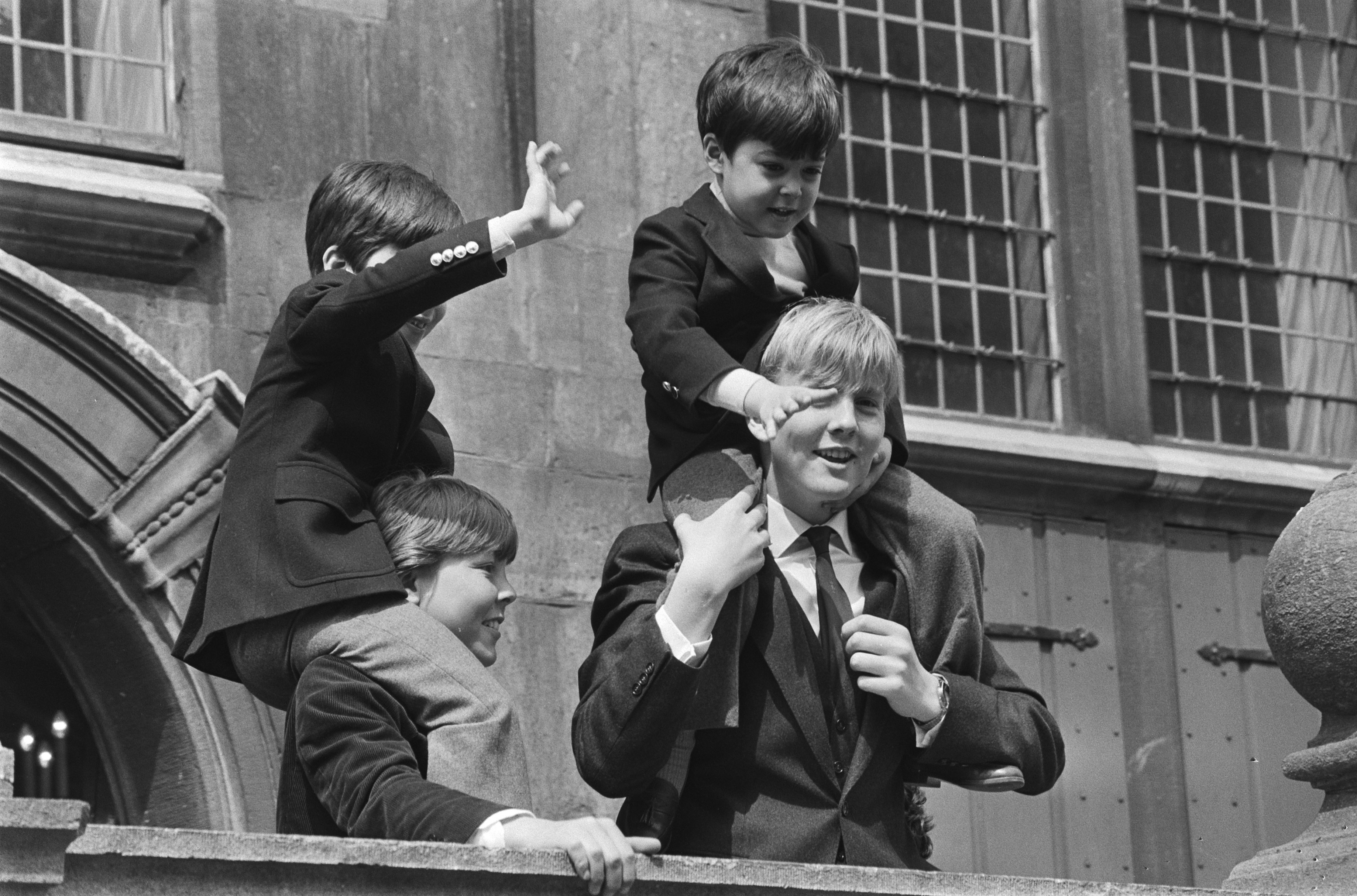 Collection / Archive: Anefo Photo Collection Reportage / Series : [ unknown ] Description : Queen's Day 1984 in The Hague; Willem Alexander and his brother Constantijn with their nephews Bernardo and Nicolas. Date : 30 april 1984 Location : The Hague, South Holland Keywords : QUEEN'S DAY Personal names : Bernardo, Willem-Alexander, Prince of Orange Photograph : Antonisse, Marcel / Anefo Copyright Holder : Nationaal Archief Material Type : Negative (black/white) Archive Inventory Number : view access 2.24.01.05 File Number : 932-9509